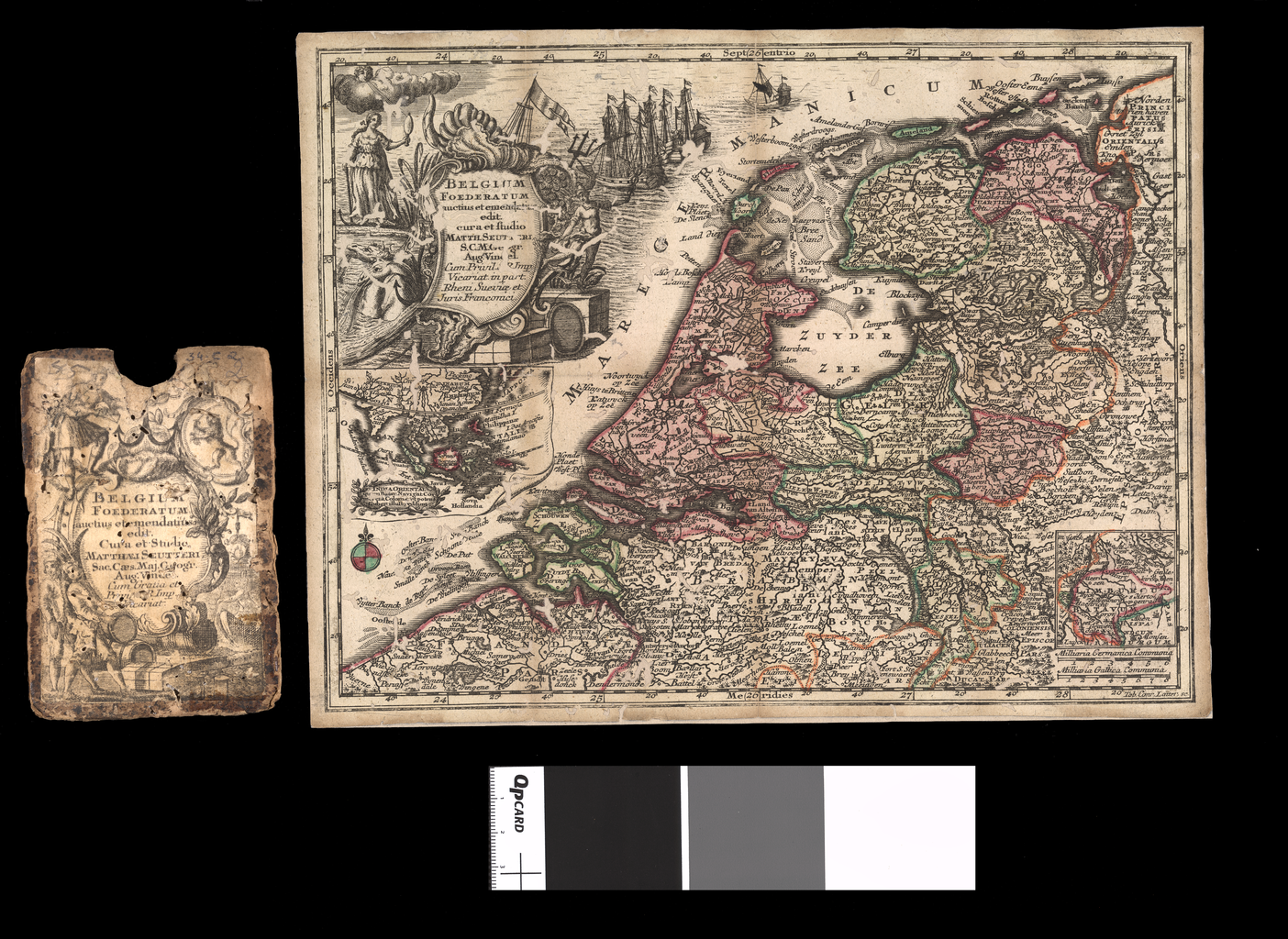 This map of the United Provinces of the Netherlands was engraved by Matthaeus Seutter (1678-1757), an engraver and publisher from Augsburg, Germany. Seutter studied printing in Nuremburg and in Augsburg, as an apprentice to Jeremias Wolff, before setting up his own printing house in 1710. Seutter generally enlarged and engraved the work of others but did very little drawing of original maps. This map was printed by Tobias Conrad Lotter (1717-77), Seutter’s son-in-law, who took over the business after Seutter’s death. Netherlands--Colonies